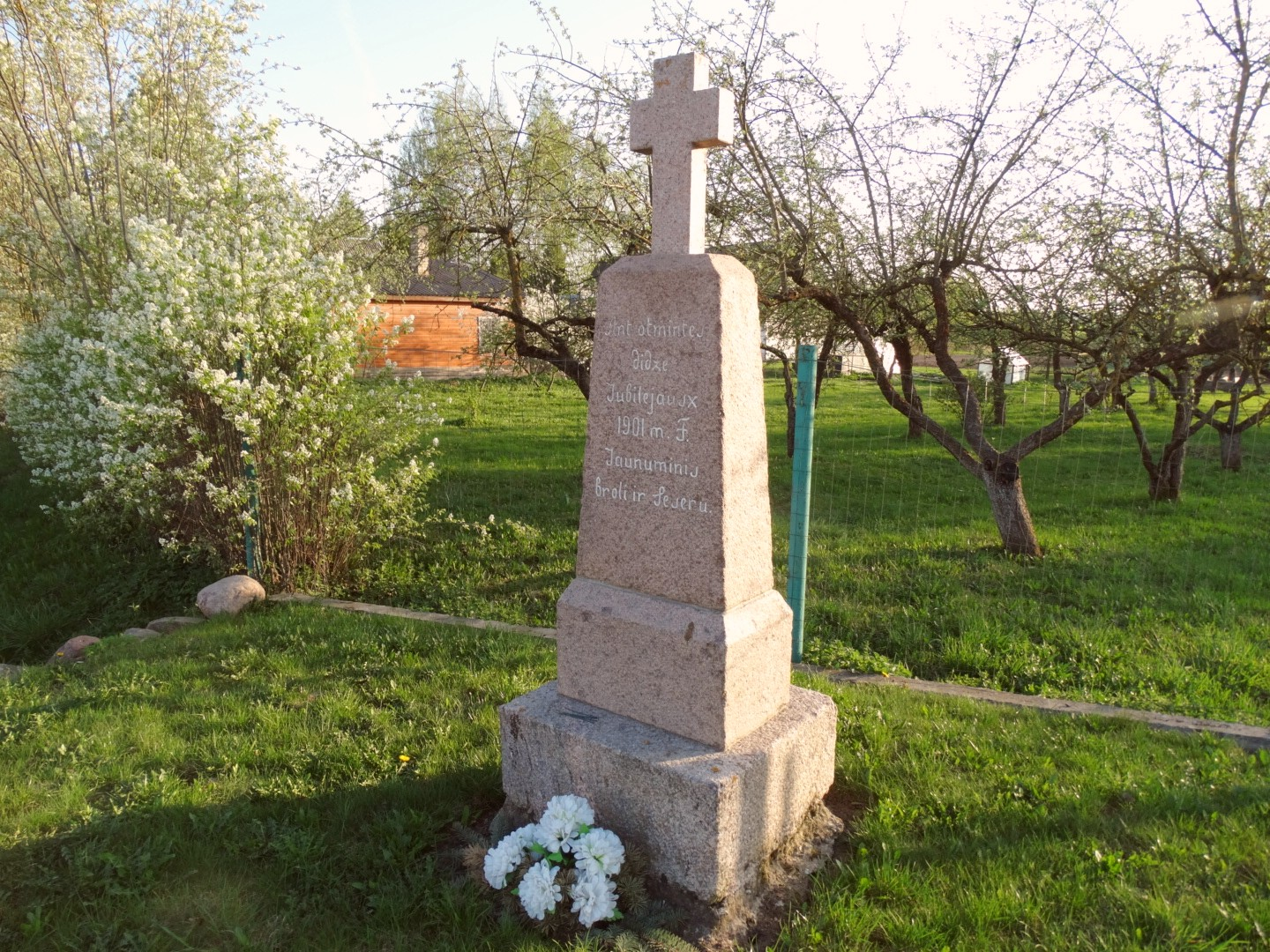 Beinorava, Radviliškis district, Lithuania